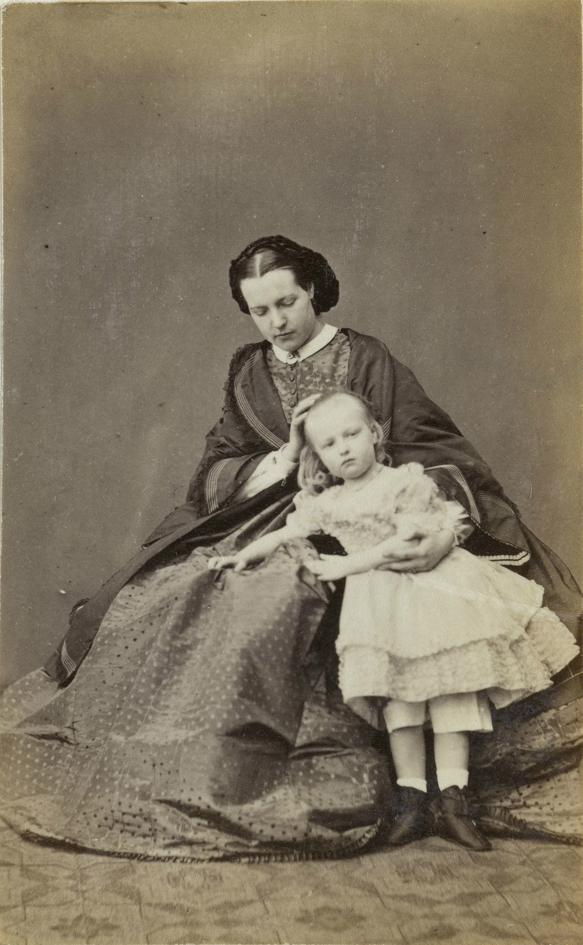 Queen Henriette of Belgians and daughter Princess Marie Louise